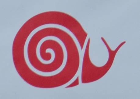 "Wir haben es satt!" demonstration in Berlin. Truck by Slow Food Germany, proclaiming "better Vin Santo than Monsanto"